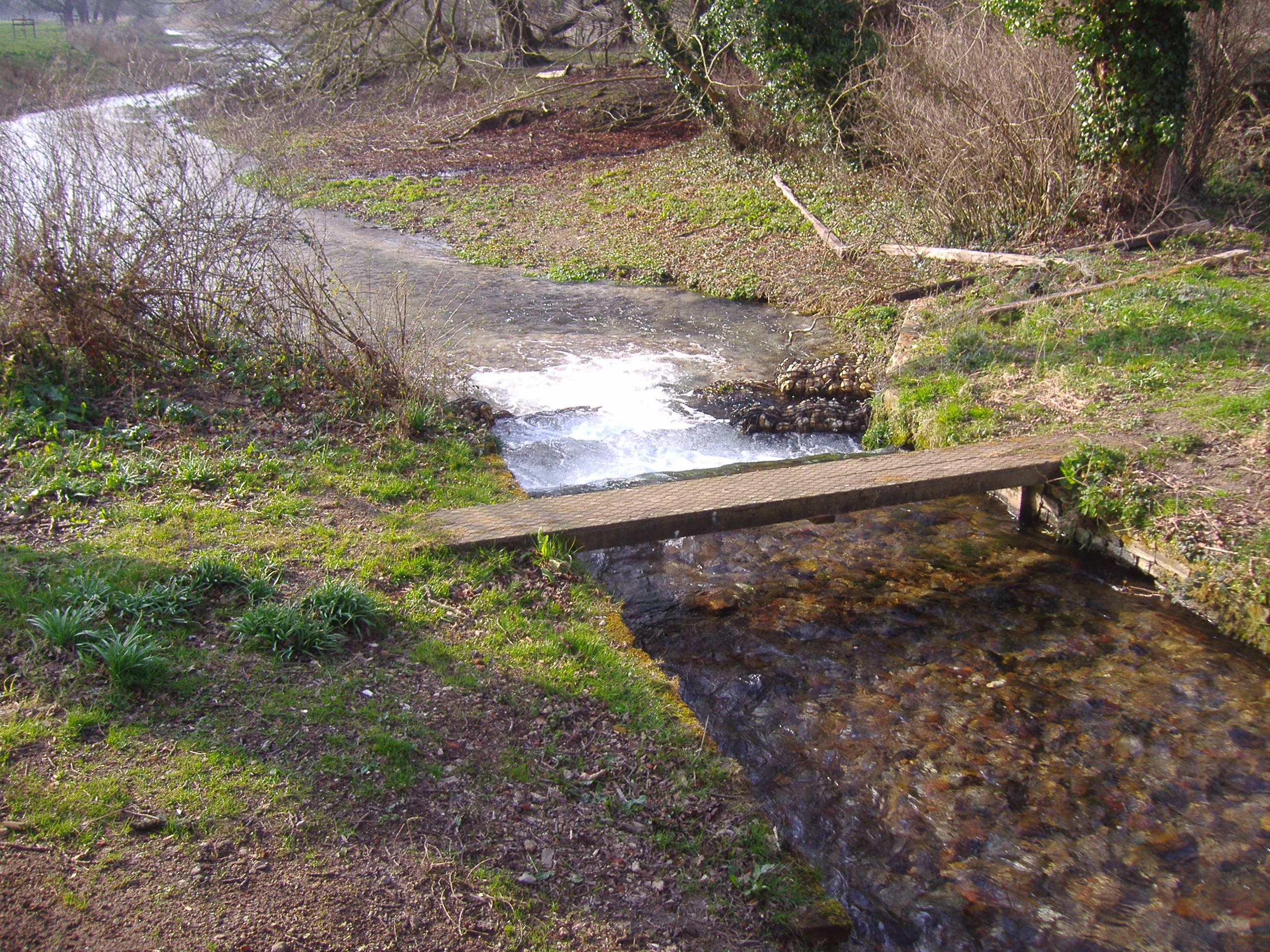 A digital photograph of the River Babingley at Hillingdon Park 24th March 2007